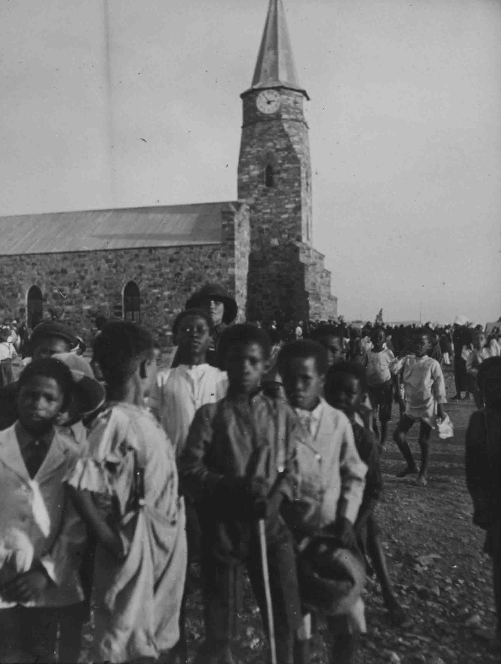 young black men after a church mass in Keetmanshoop, Namibia